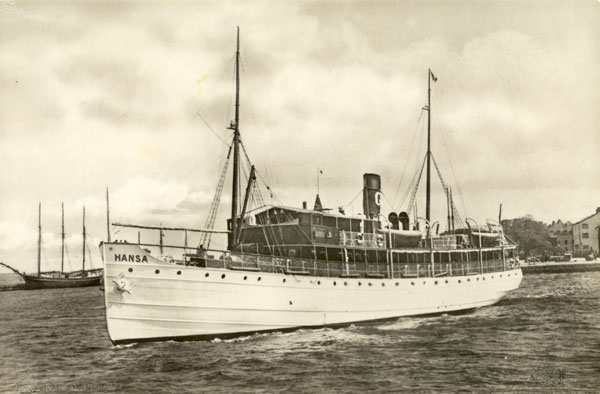 Swedish passenger ship Hansa